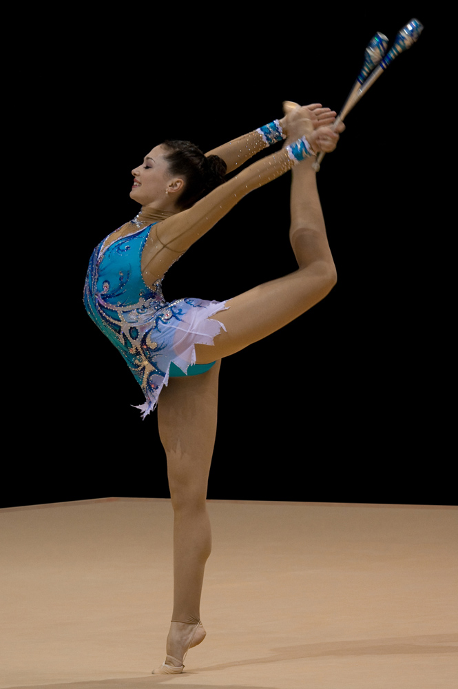 VII Final World Cup in Benidorm (SPAIN)